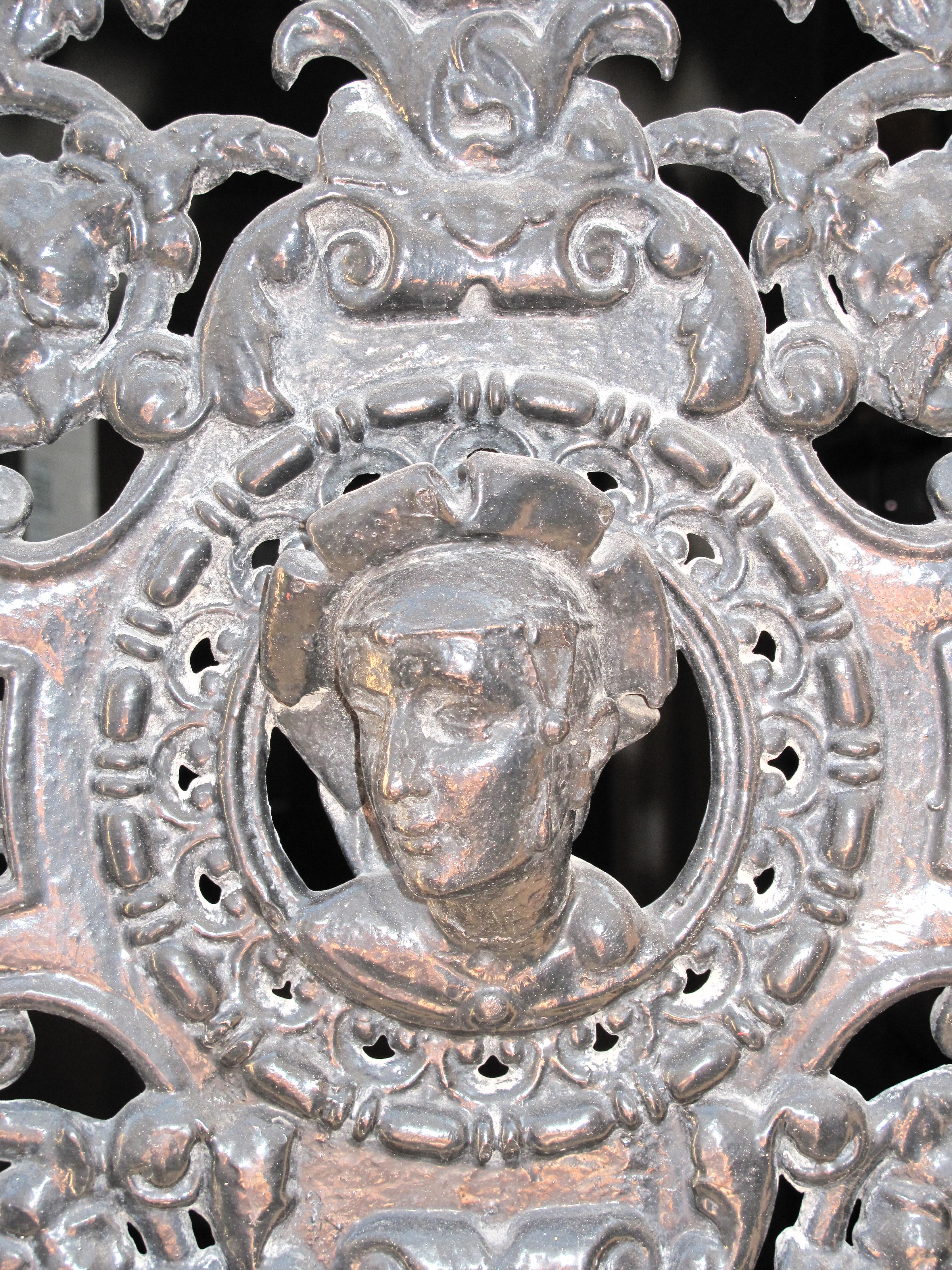 Detail of the grid of the left door representing Heloise : 3bis rue d'Athènes, Paris 9th arr.